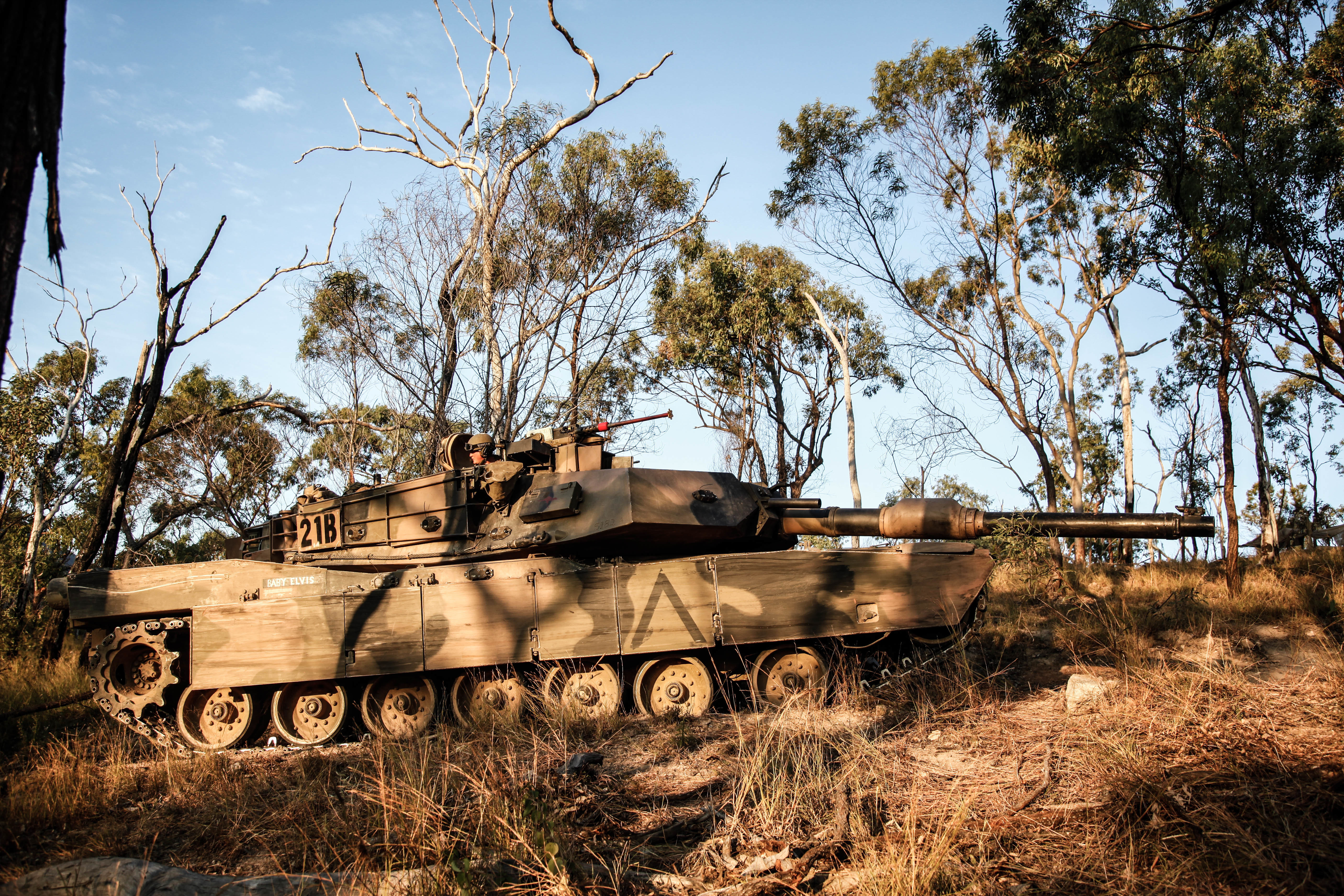 Australian Soldiers engage in simulated combat in a M1A1 Abrams Tanks during exercise Hamel 15 a sub-mission of exercise Talisman Sabre 2015 in Shoalwater Bay Training Area, Queensland, Australia on July 14, 2015.